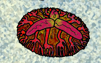 The Ediacaran trilobozoan Anfesta stankovskii, of the White Sea of Russia. (C) Stanton F. Fink